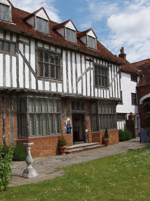 Tymperleys, a timber-framed 15th-century house in Colchester, Essex. It is now a clock museum.